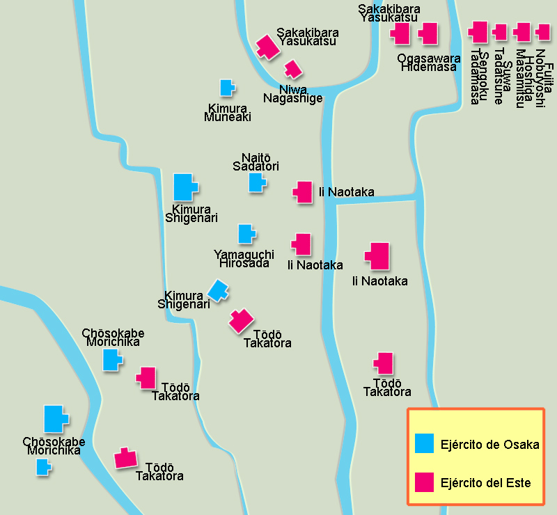 Image of the battle_of_YaoWakae the part of the siege of Osaka.